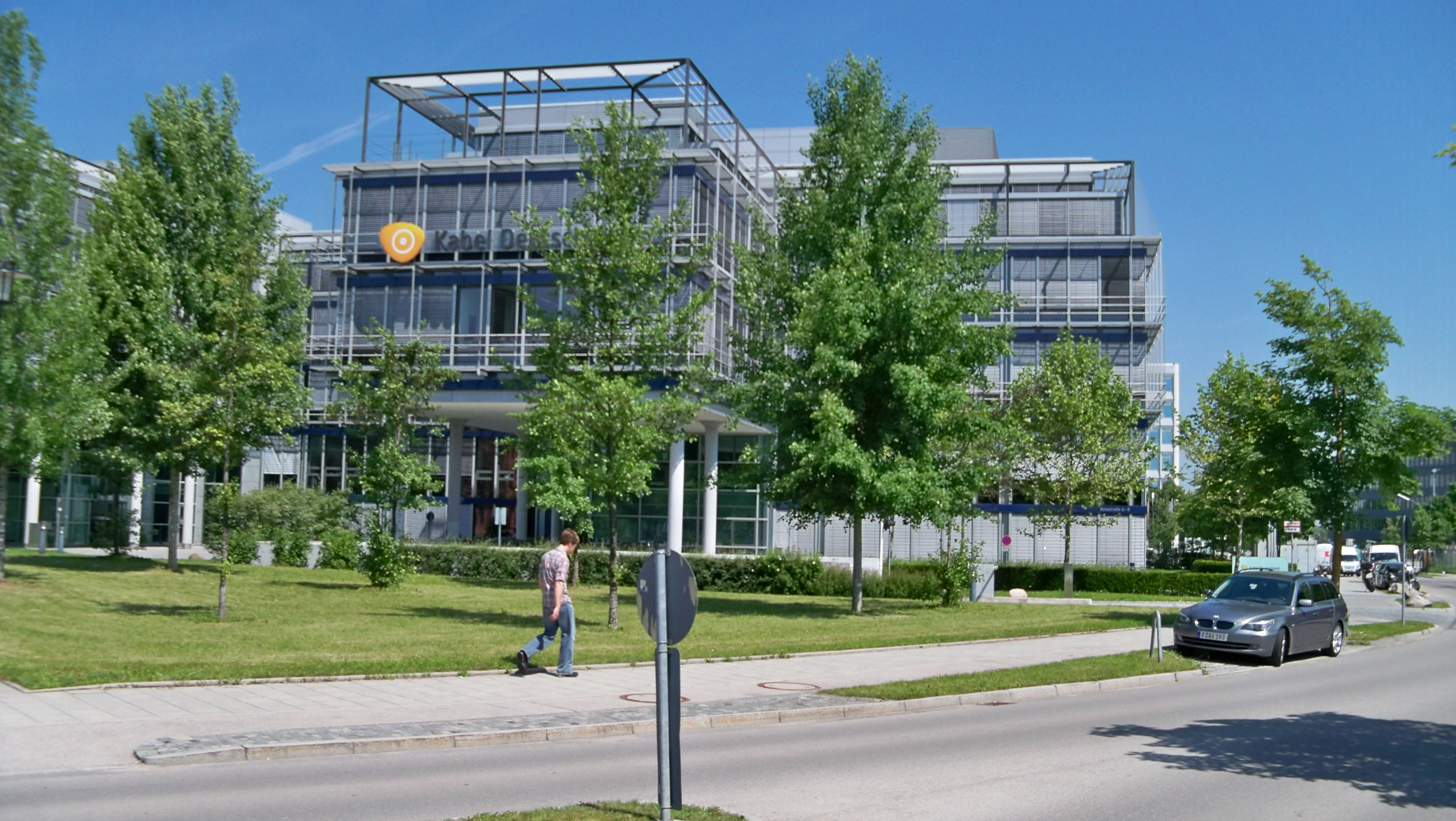 Kabel Deutschland in Unterföhring, Germany.